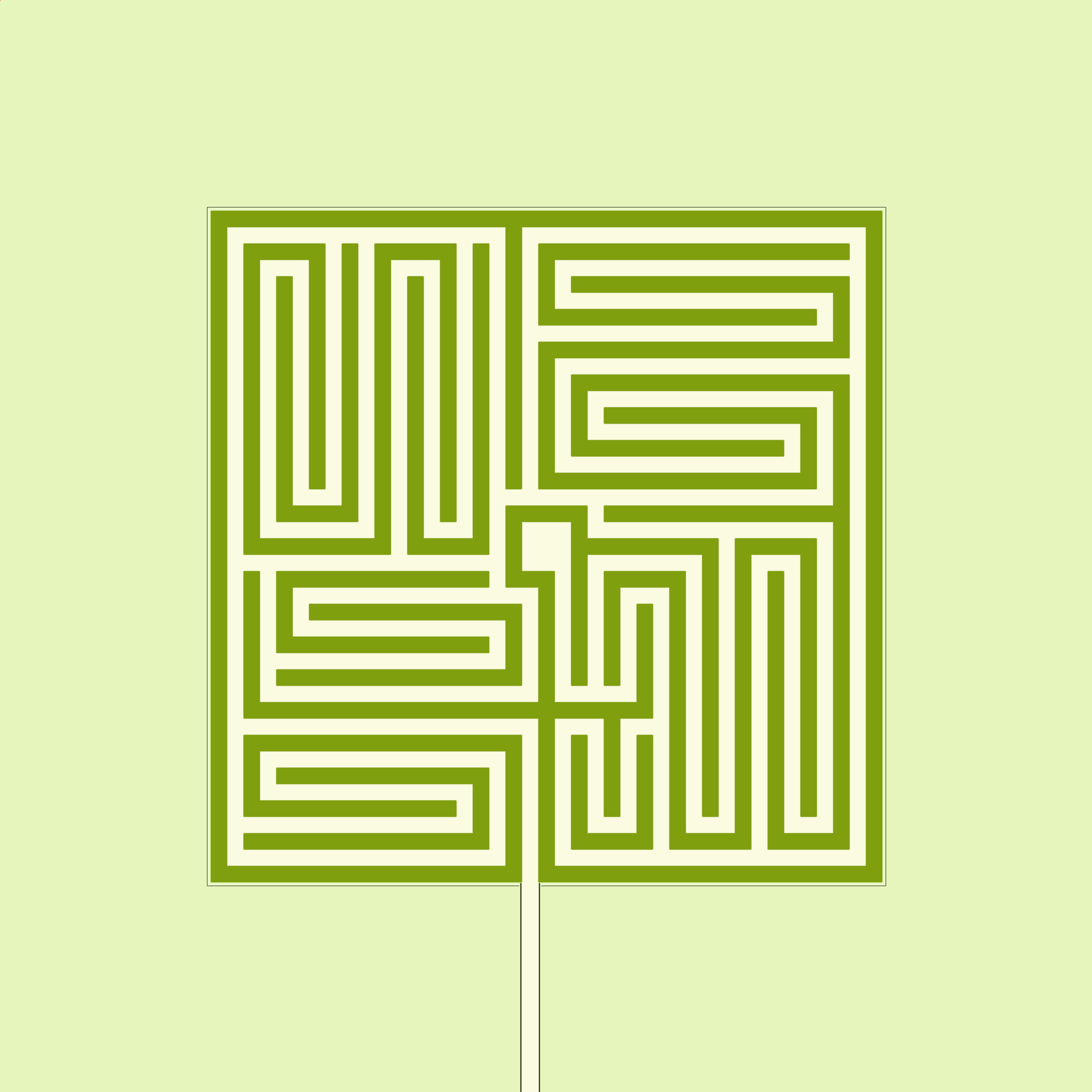 Hedge maze in Grueningen created by Johann Peschel 1576, destroyed